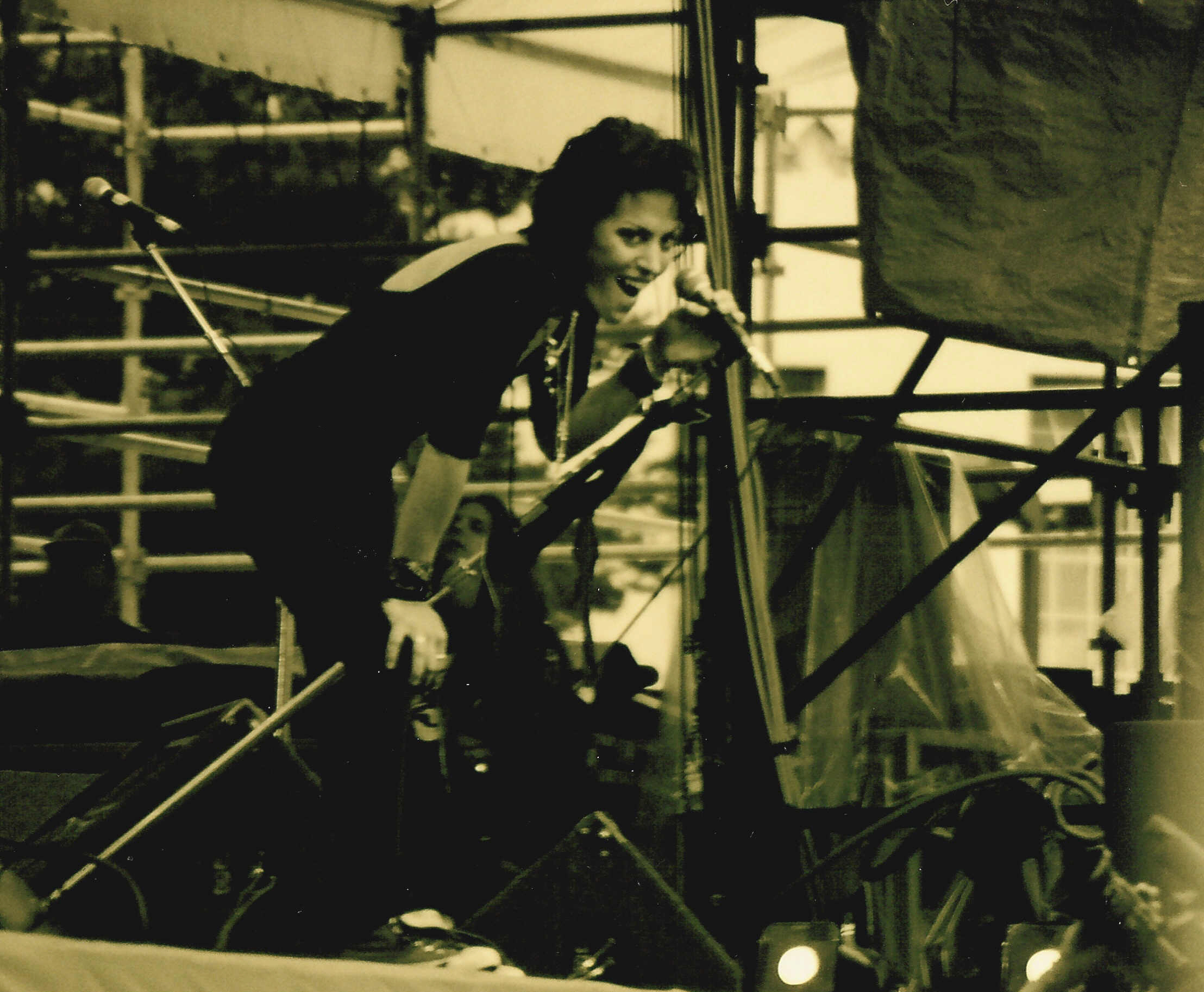 Joan Jett (right), Bumbershoot festival, Seattle, Washington, 1994.